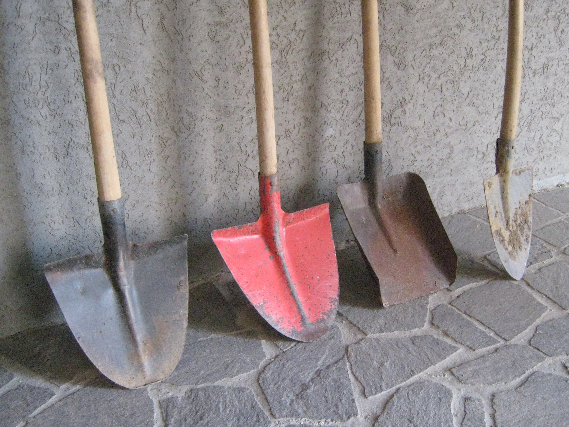 Shovels